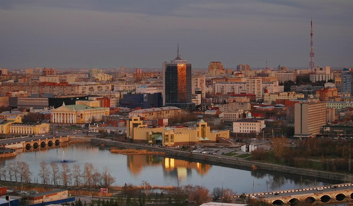 Gosudarstvennyy istoricheskiy muzey Yuzhnogo Urala – State historic museum of South Ural – view from Svyatogor complex